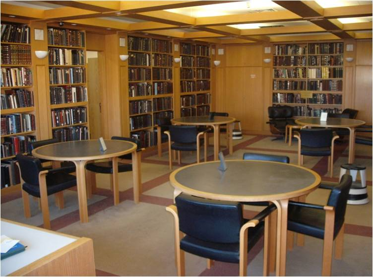 Scholem Collection reading room